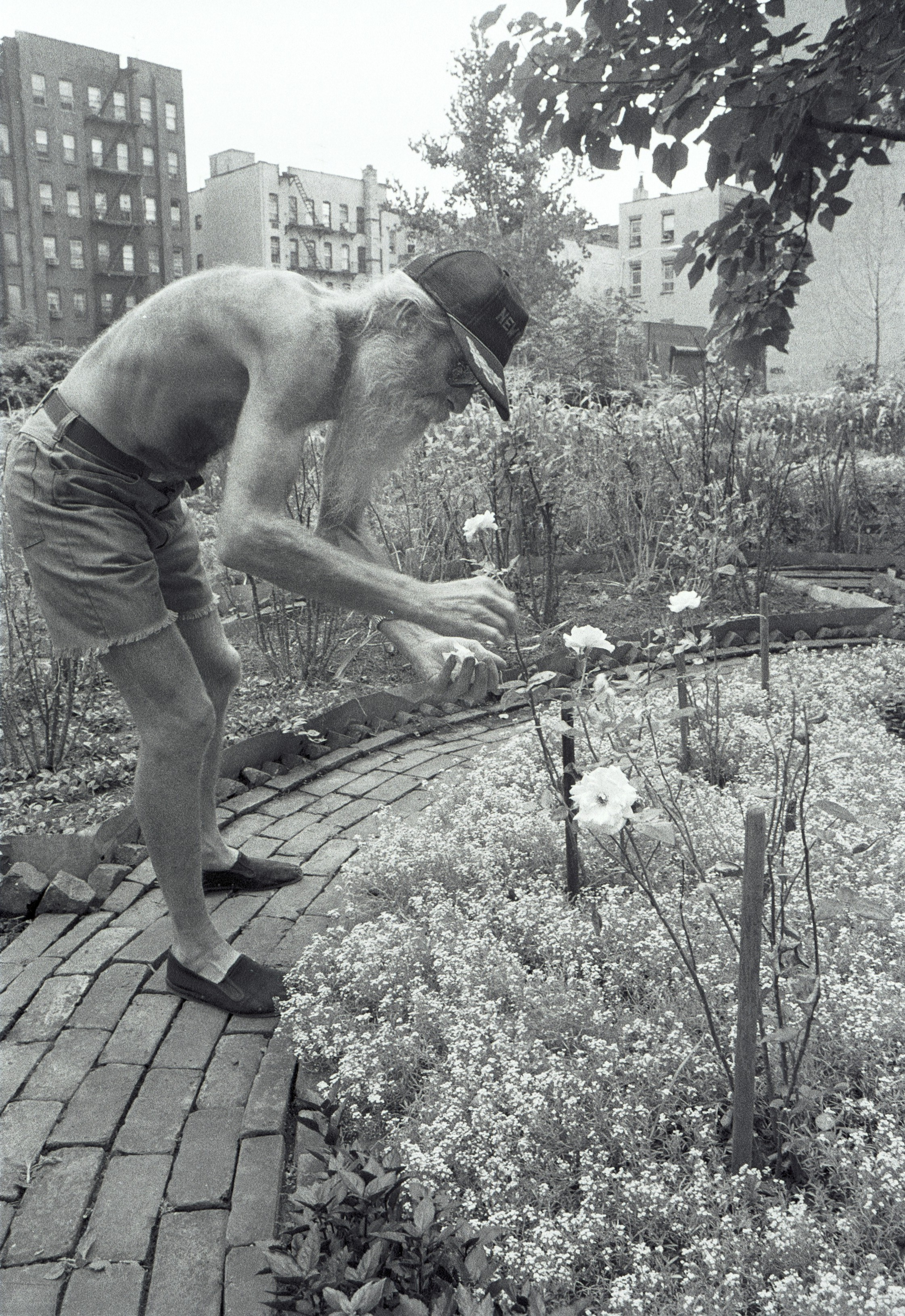 Adam Purple Tending his "Urban Garden" on the Lower East Side of New York City in 1984. Note the buildings in the back ground.